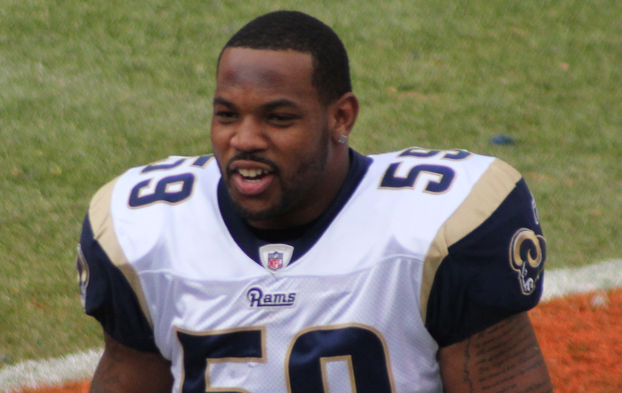 Larry Grant, a player on the Saint Louis Rams American football team.